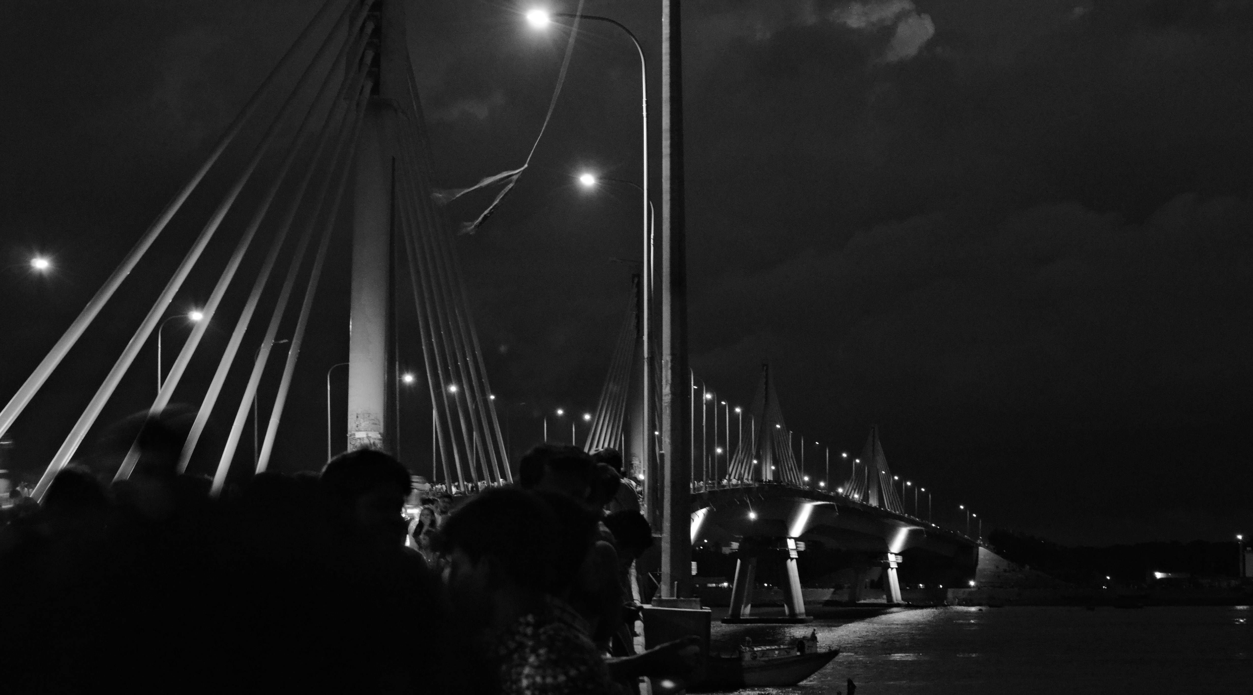 Place: 3rd Karnafuly Bridge, Chittagong